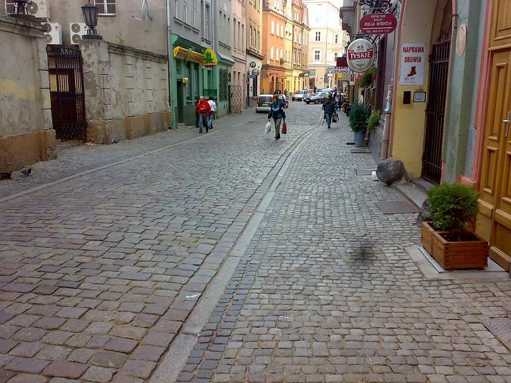 Old Town in Poznan - cobblestones.